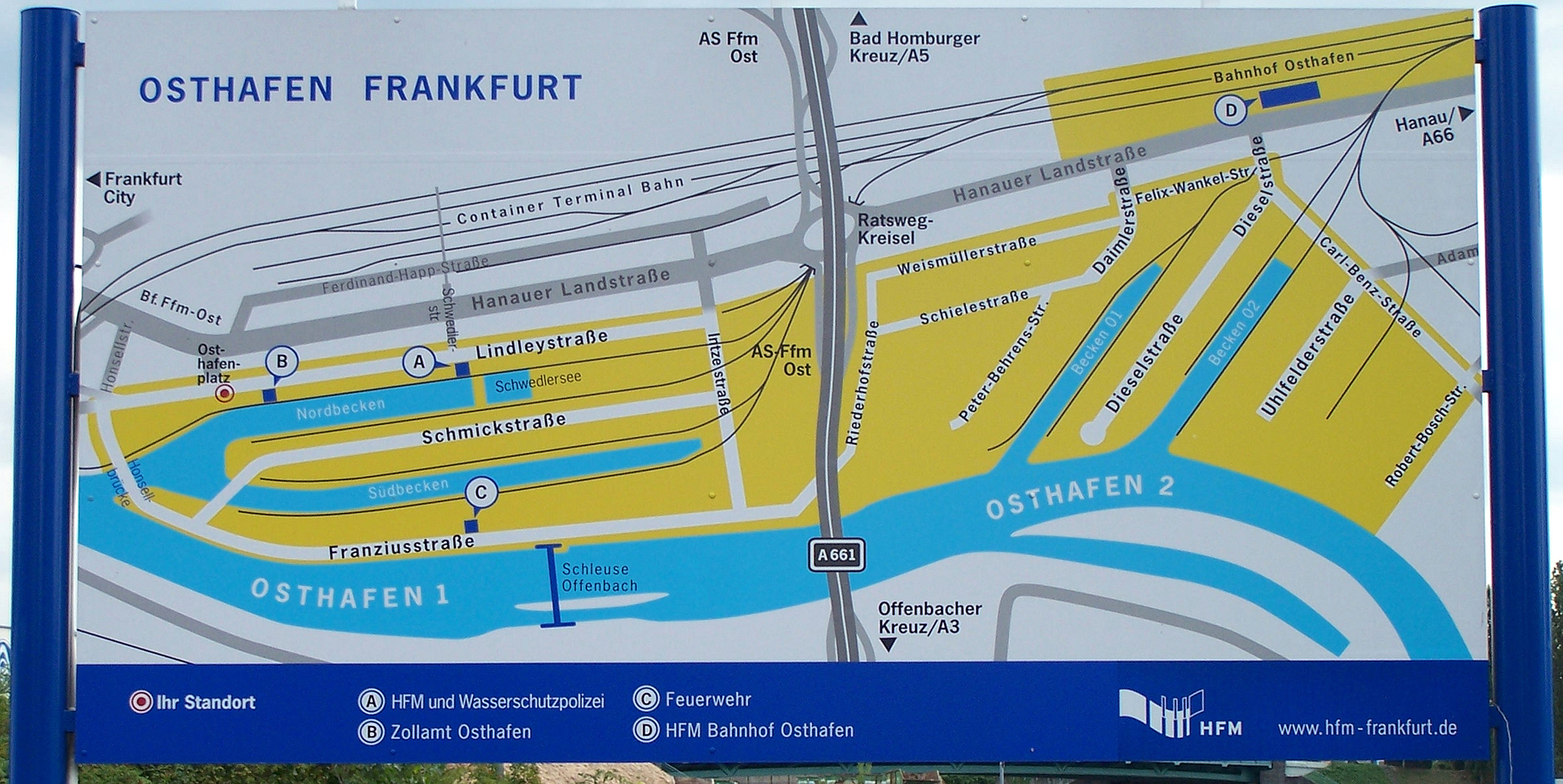 site plan of the Eastern Harbour in Frankfurt am Main at the Osthafenplatz